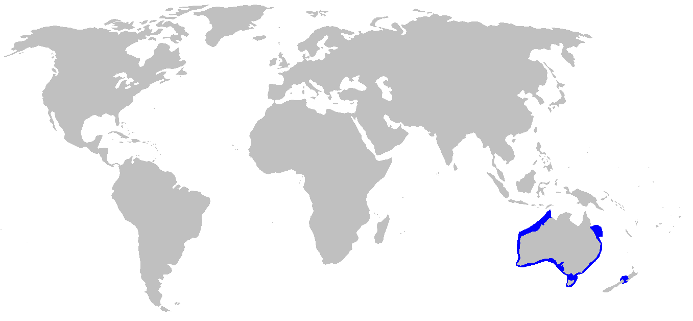 Distribution map for Heterodontus portusjacksoni